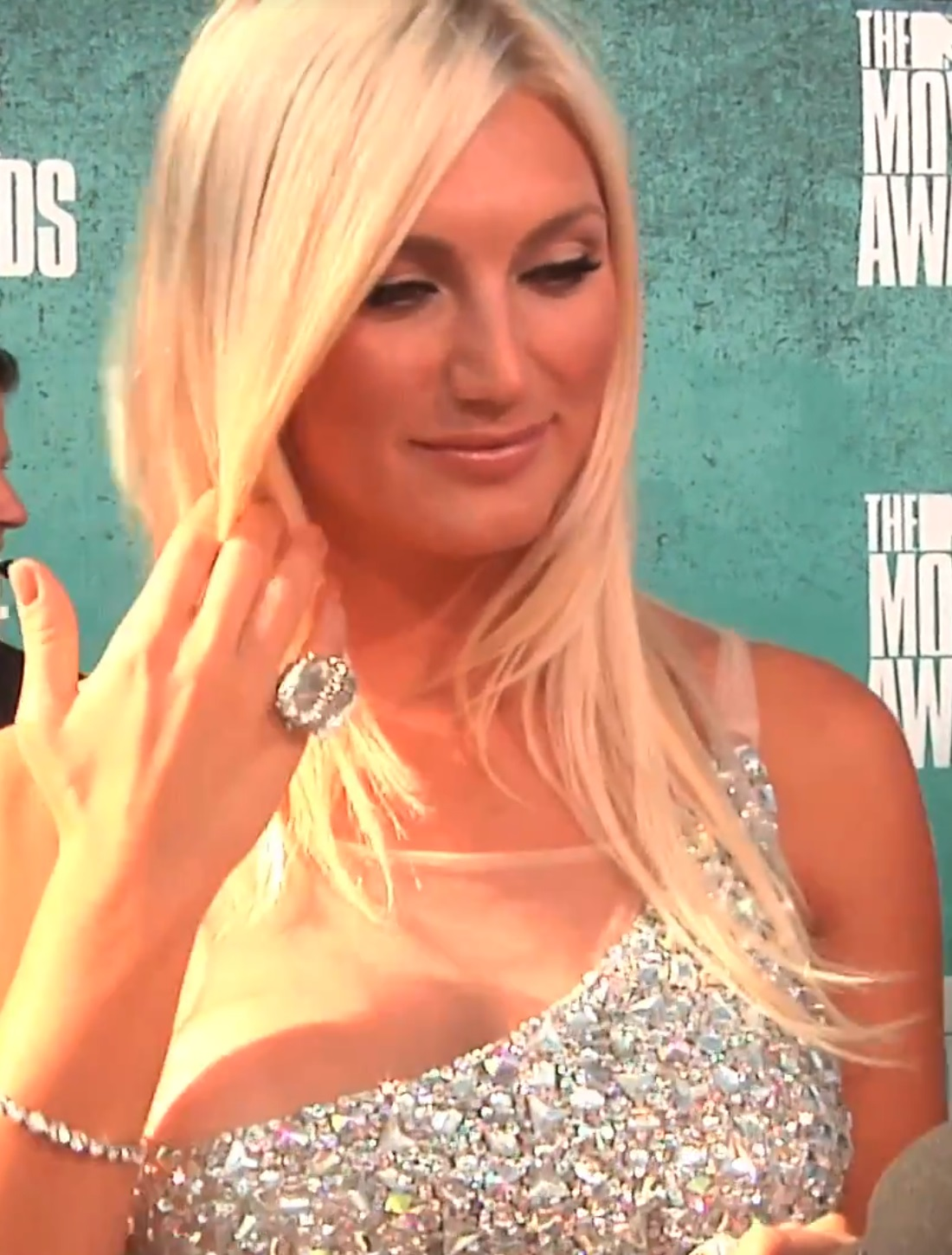 American singer, actress, and reality TV star Brooke Hogan interviewed at the MTV Movie Awards 2012 on "The Hollywood Social Lounge". Kelly V. Dolan & Mabel Aragon HOST the 2012 MTV Movie Awards Red Carpet for NBC News Radio KCAA 1050 AM "LIVE with Aaron & Kelly"